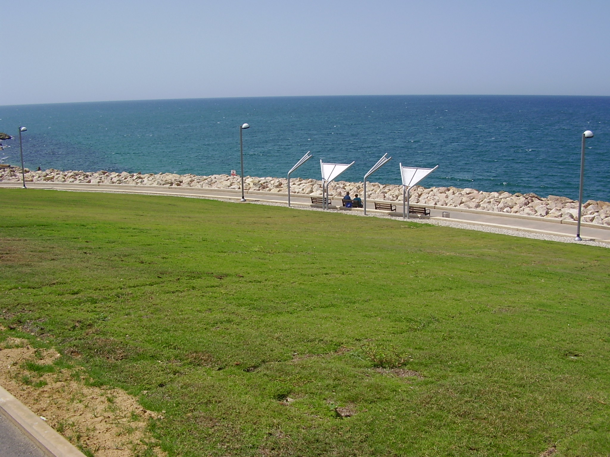 jaffa slope park promenade טיילת החוף בפארק מדרון יפו